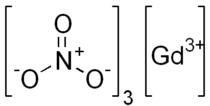 chemical structure of gadolinium nitrate